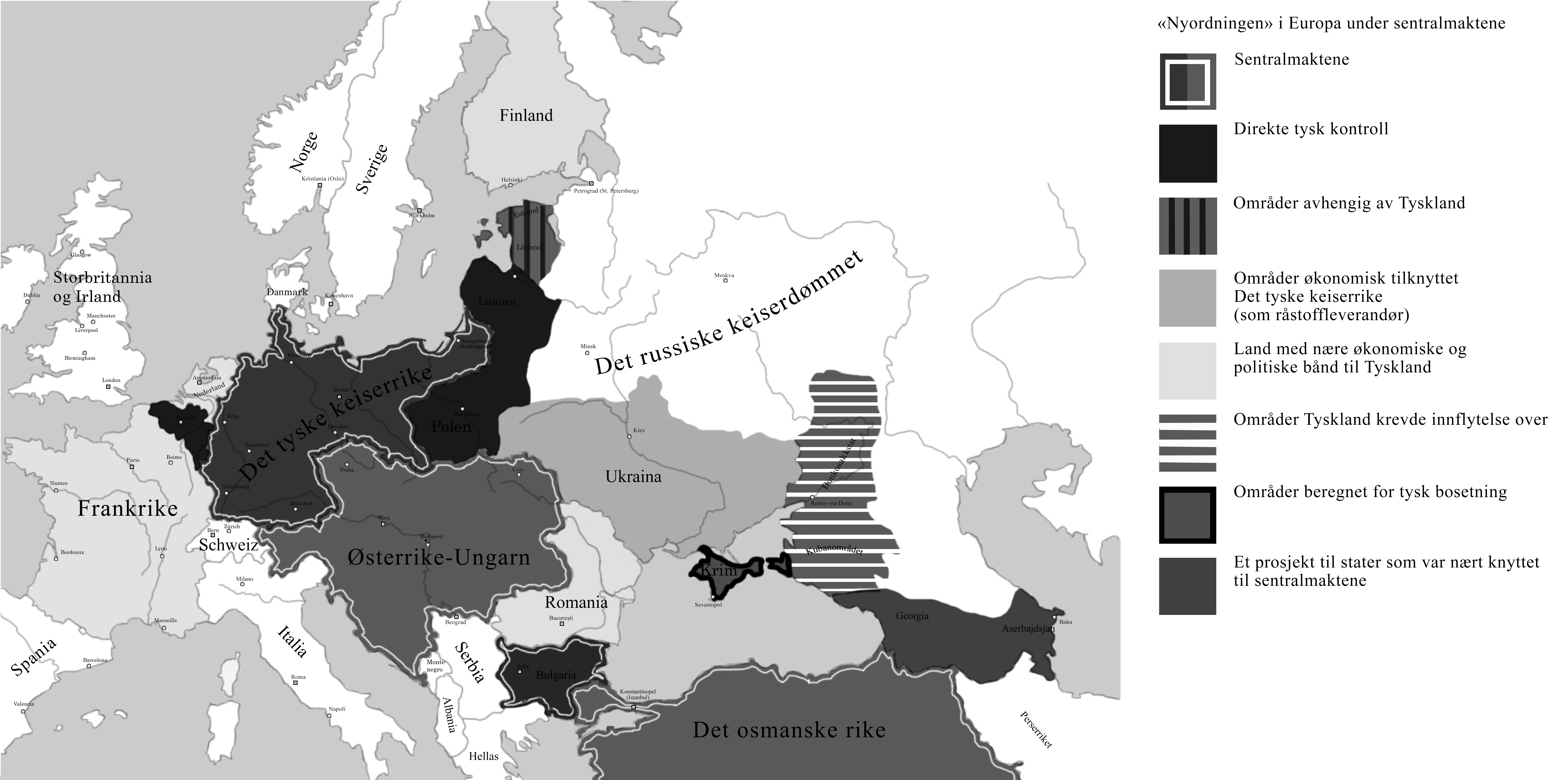 The waraims of the central powers in 1918